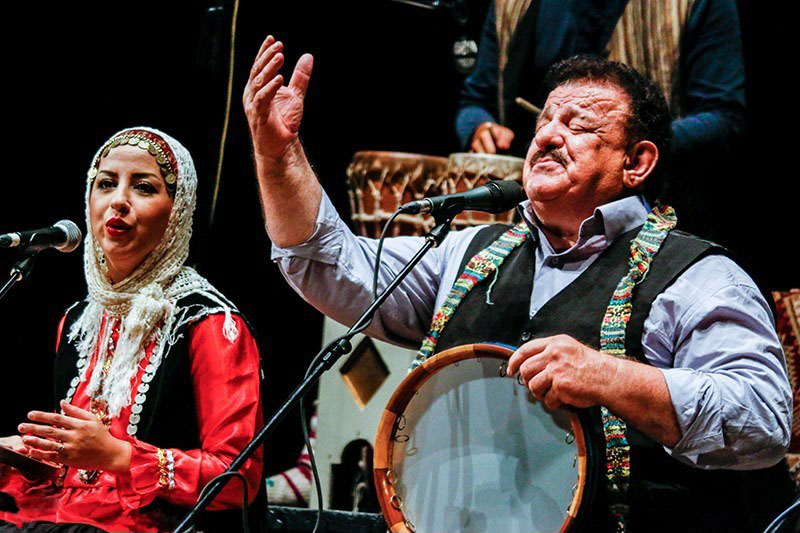 Naser Vahdati, folklore vocalist and other members of Gil va Amard band had an performance in Vahdat Hall presenting folklore music of Gilan.